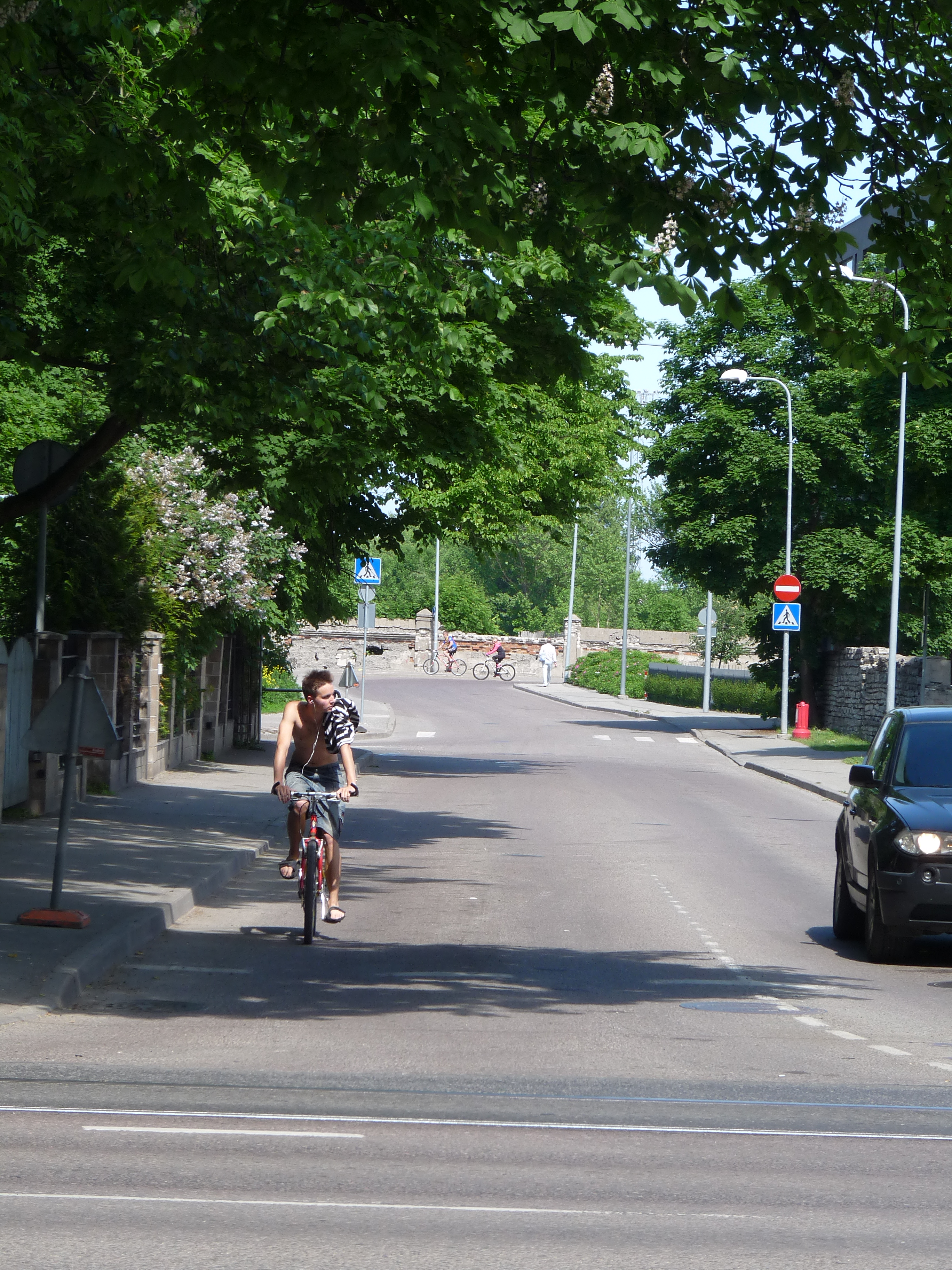 Filmi street